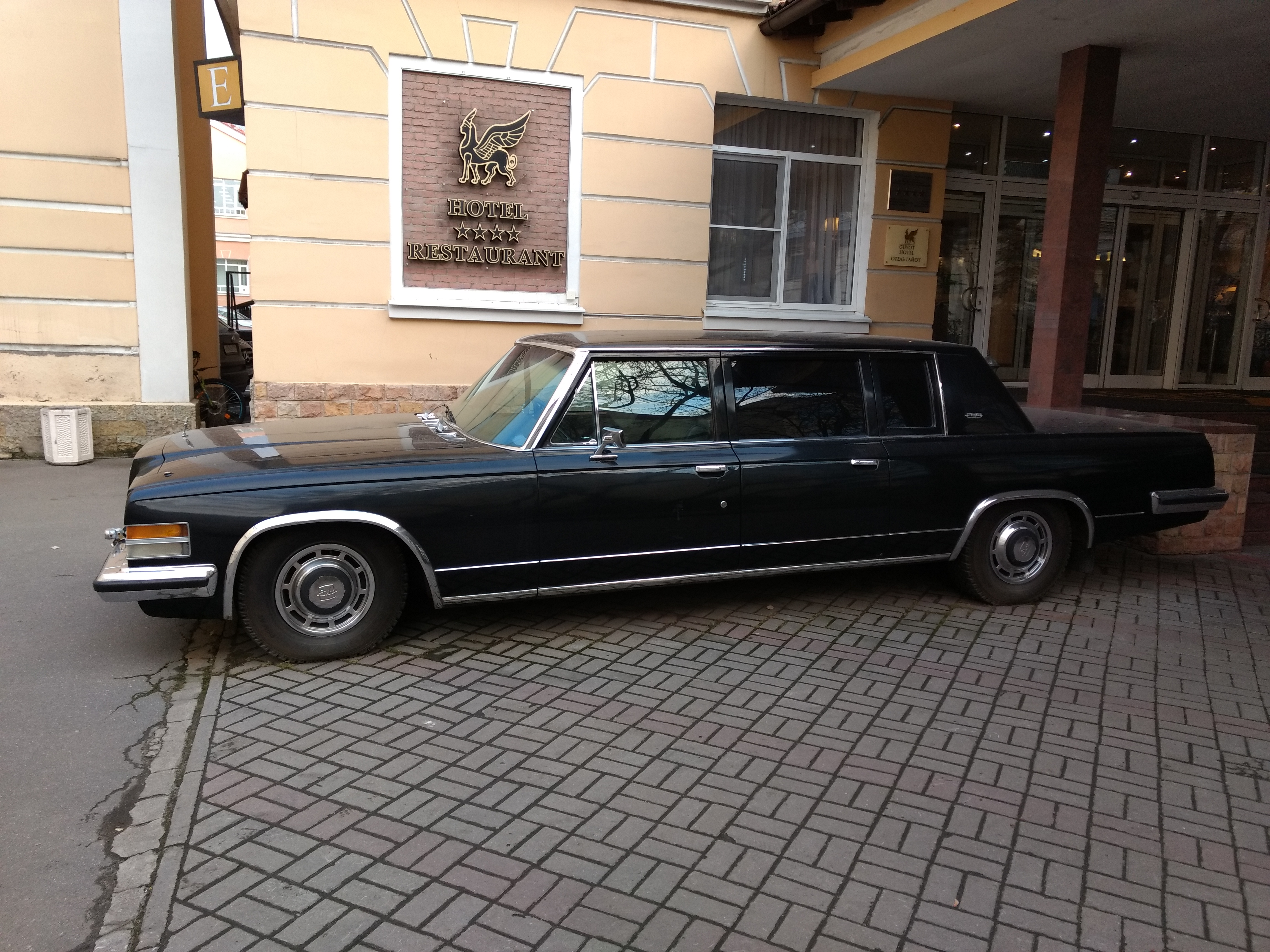 ZiL-115 soviet limousine, Saint Petersburgh, Rusia.